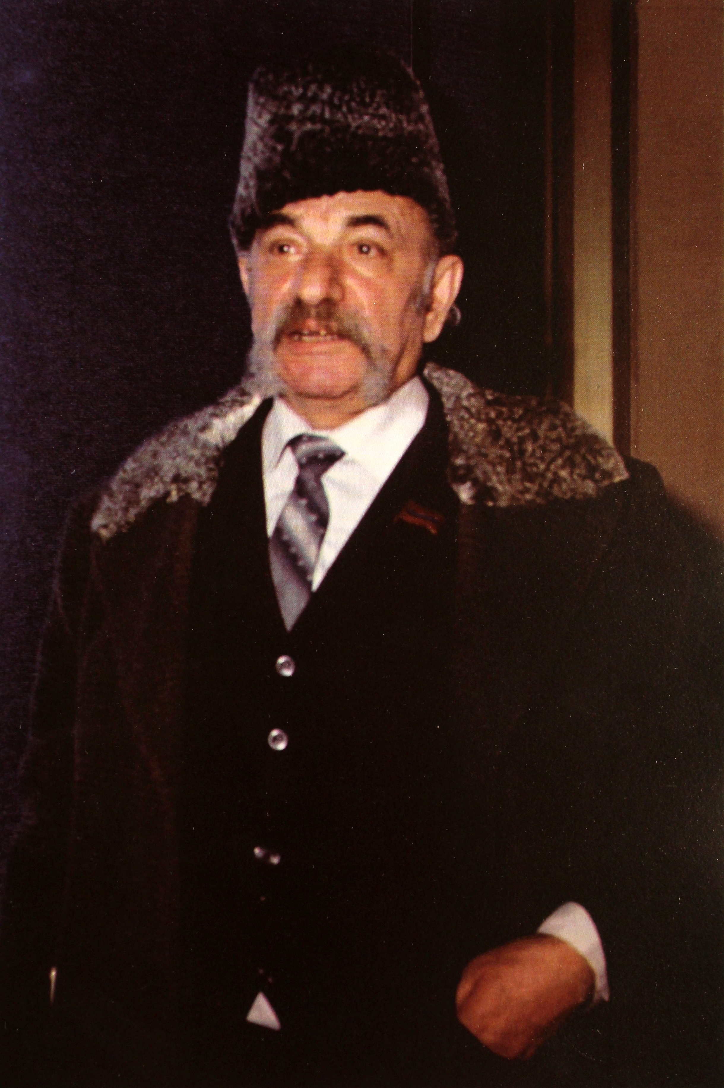 The making of this file was supported by Wikimedia Armenia.